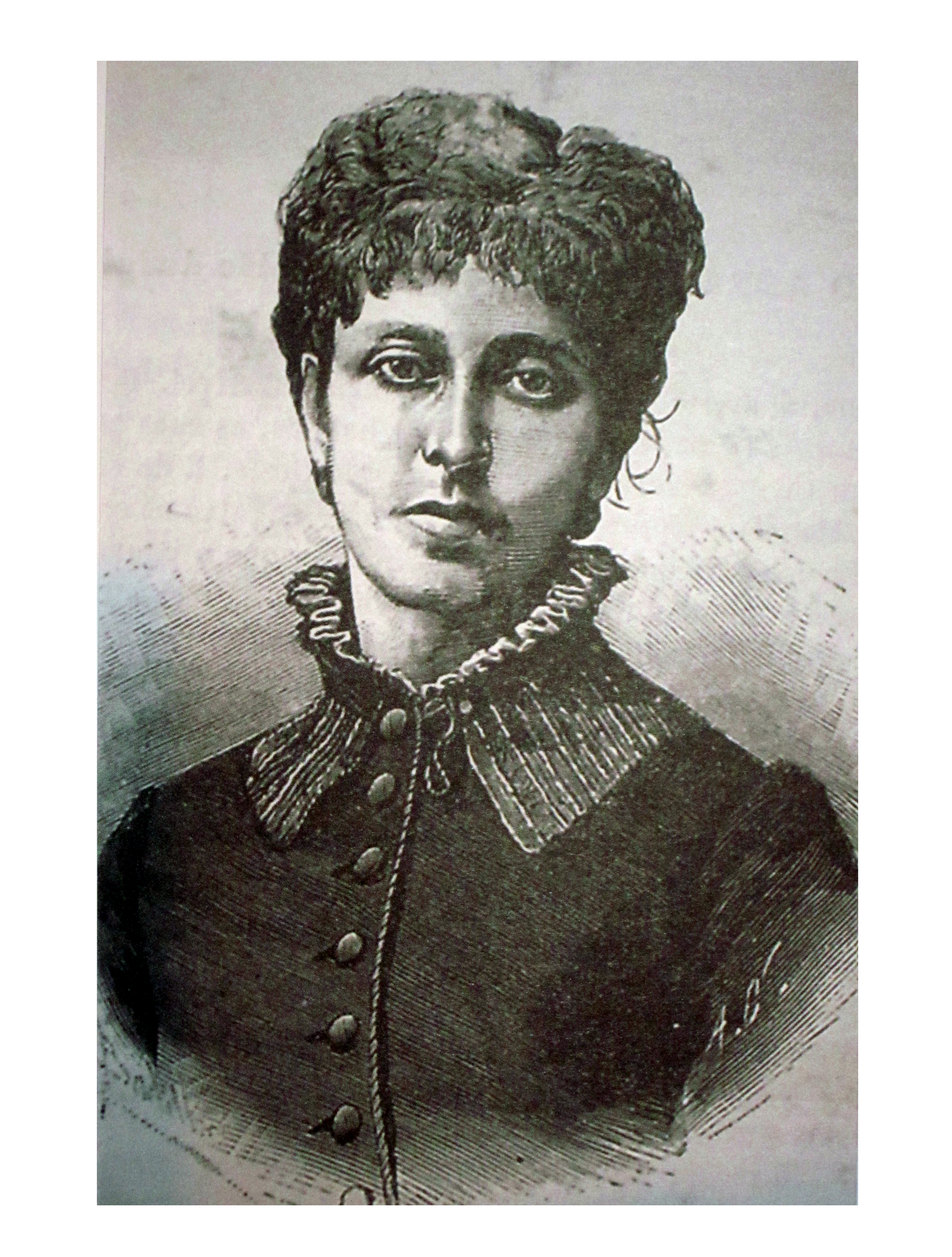 Ilustração Universal, Ano I, nº 33, Lisboa, 20 de Setembro de 1884